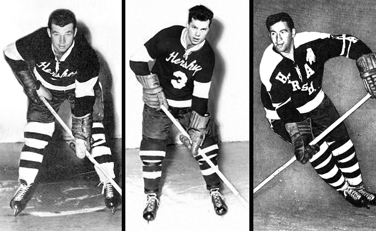 Hershey Bears' players Don Cherry, Frank Mathers, and Mike Nykoluk; Composite image made from three PD publicity all three of which were published without copyright in the US prior to 1978.